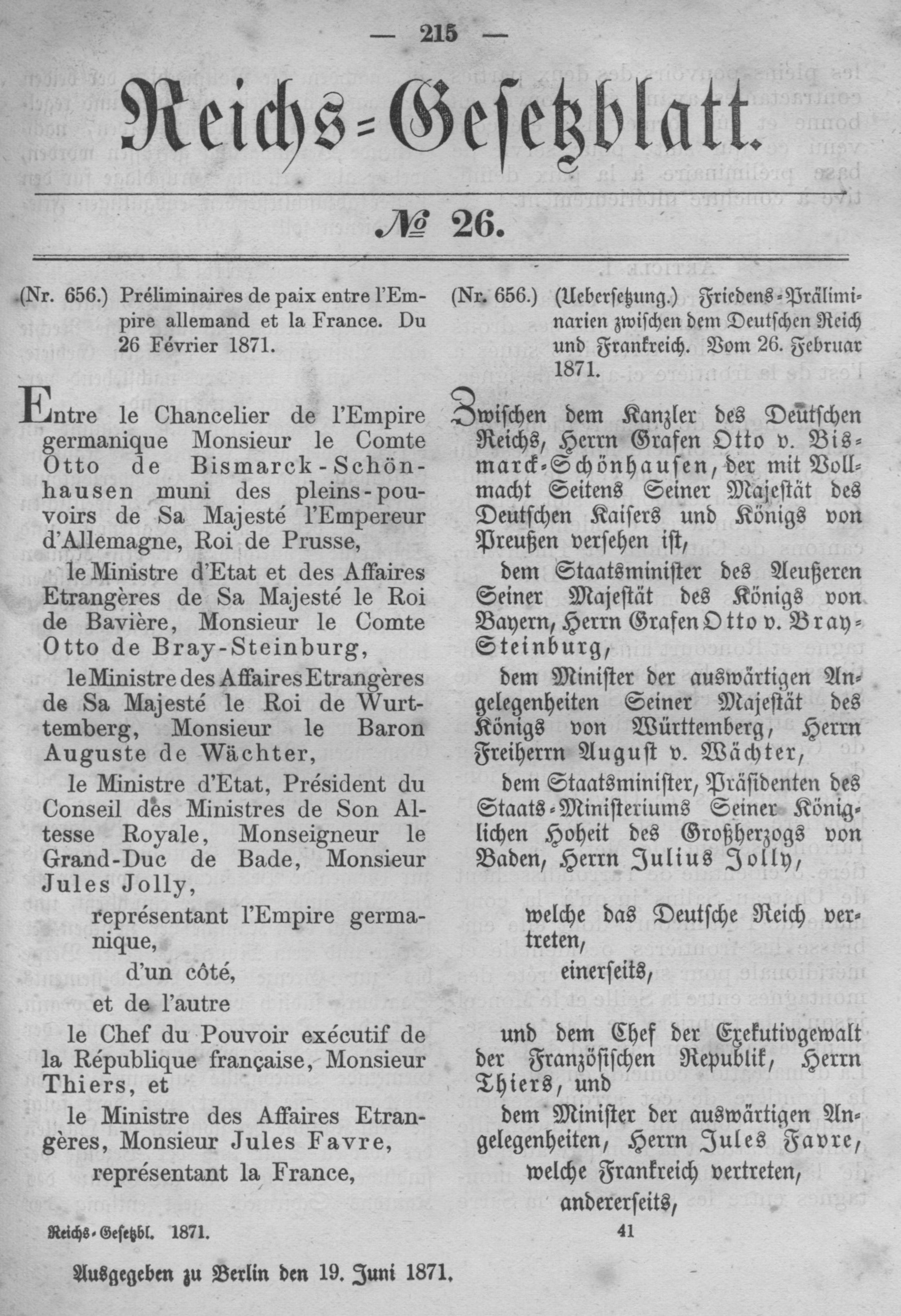 Scan from the Imperial Law Gazette of Germany, 1871